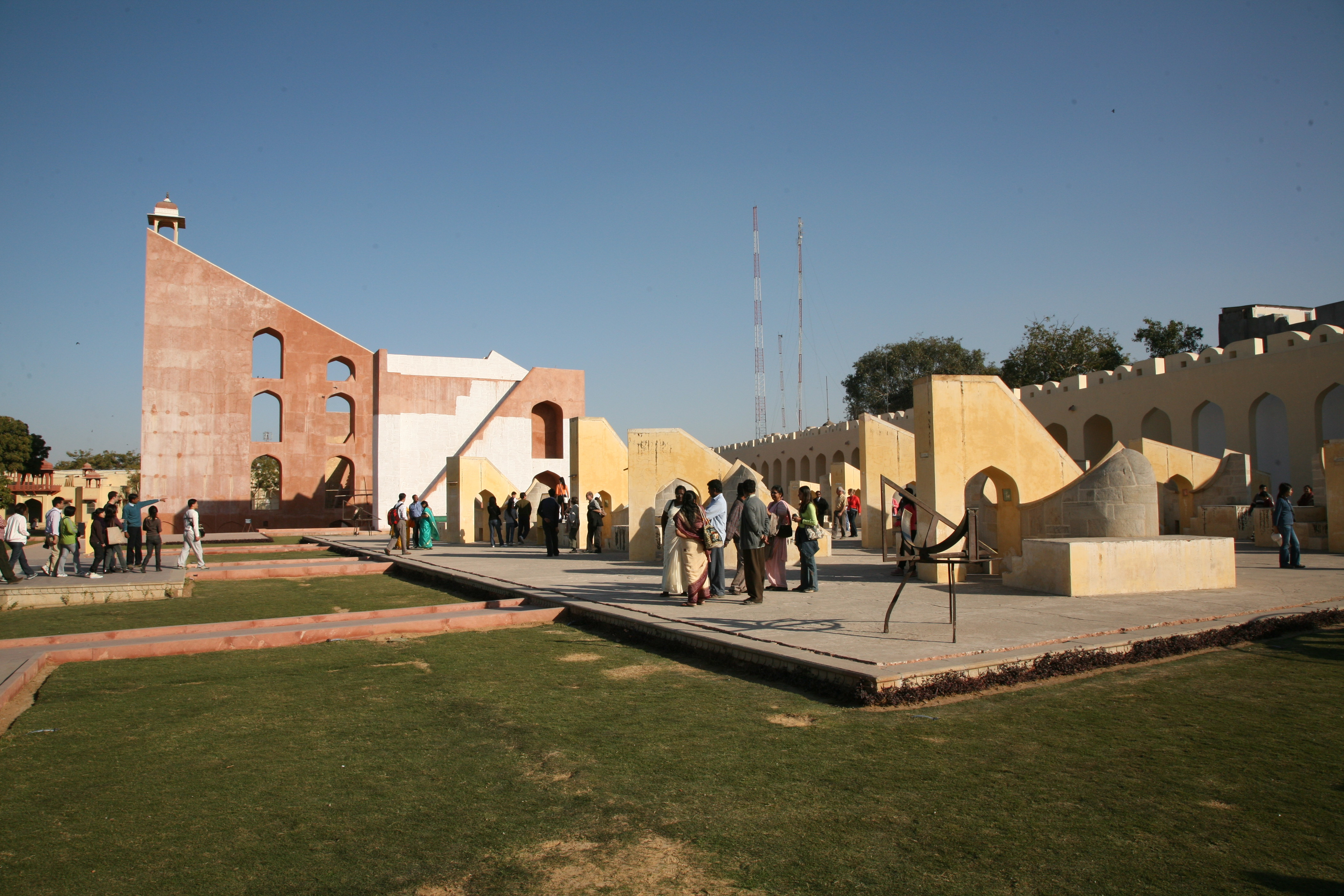 From Jantar Mantar in Jaipur.The Samrat Yantra is the largest sundial in the world.